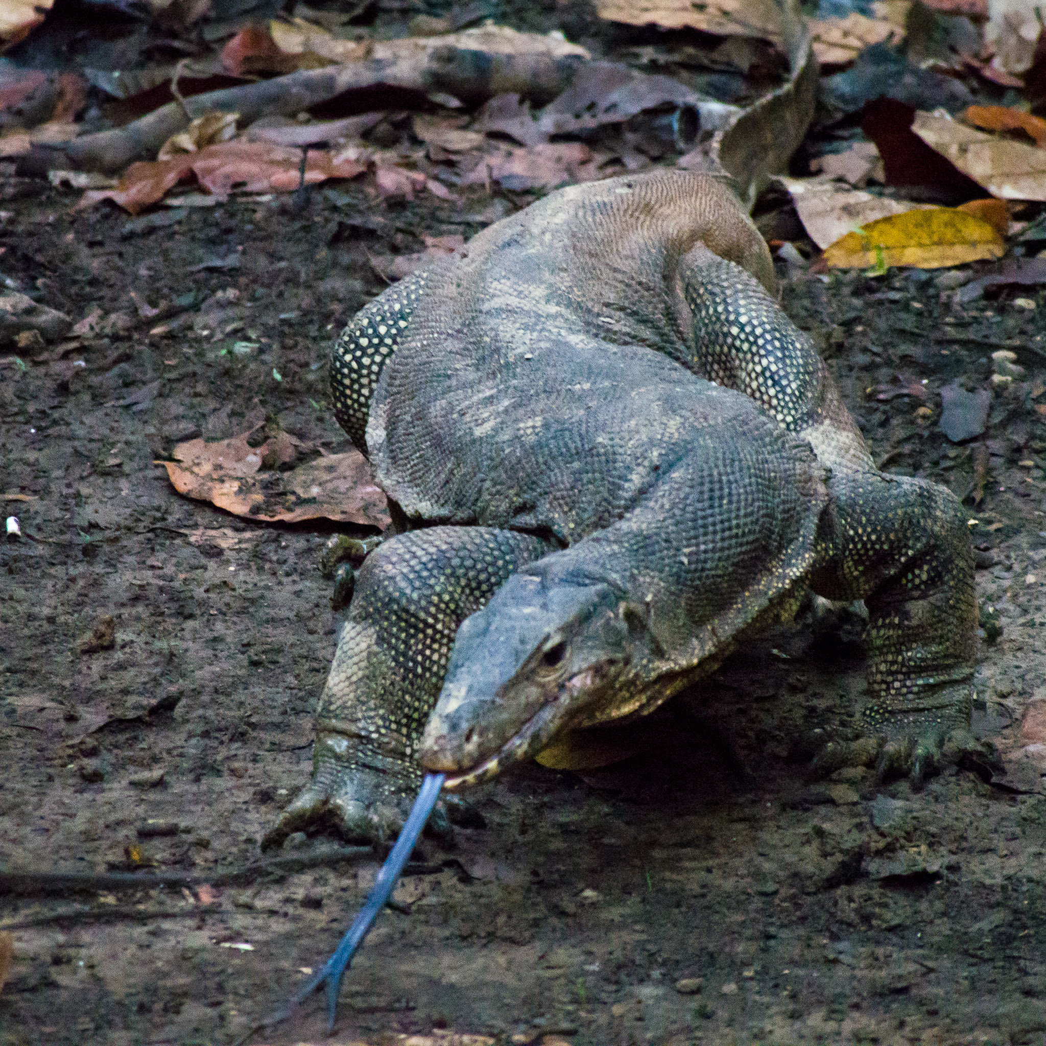 Water Monitor